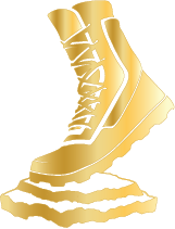 A graphic of the Vetty boot in gold designed as a symbol for boots on the ground.